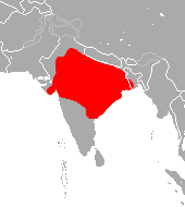 Bengal Gray Langur (Semnopithecus entellus) range